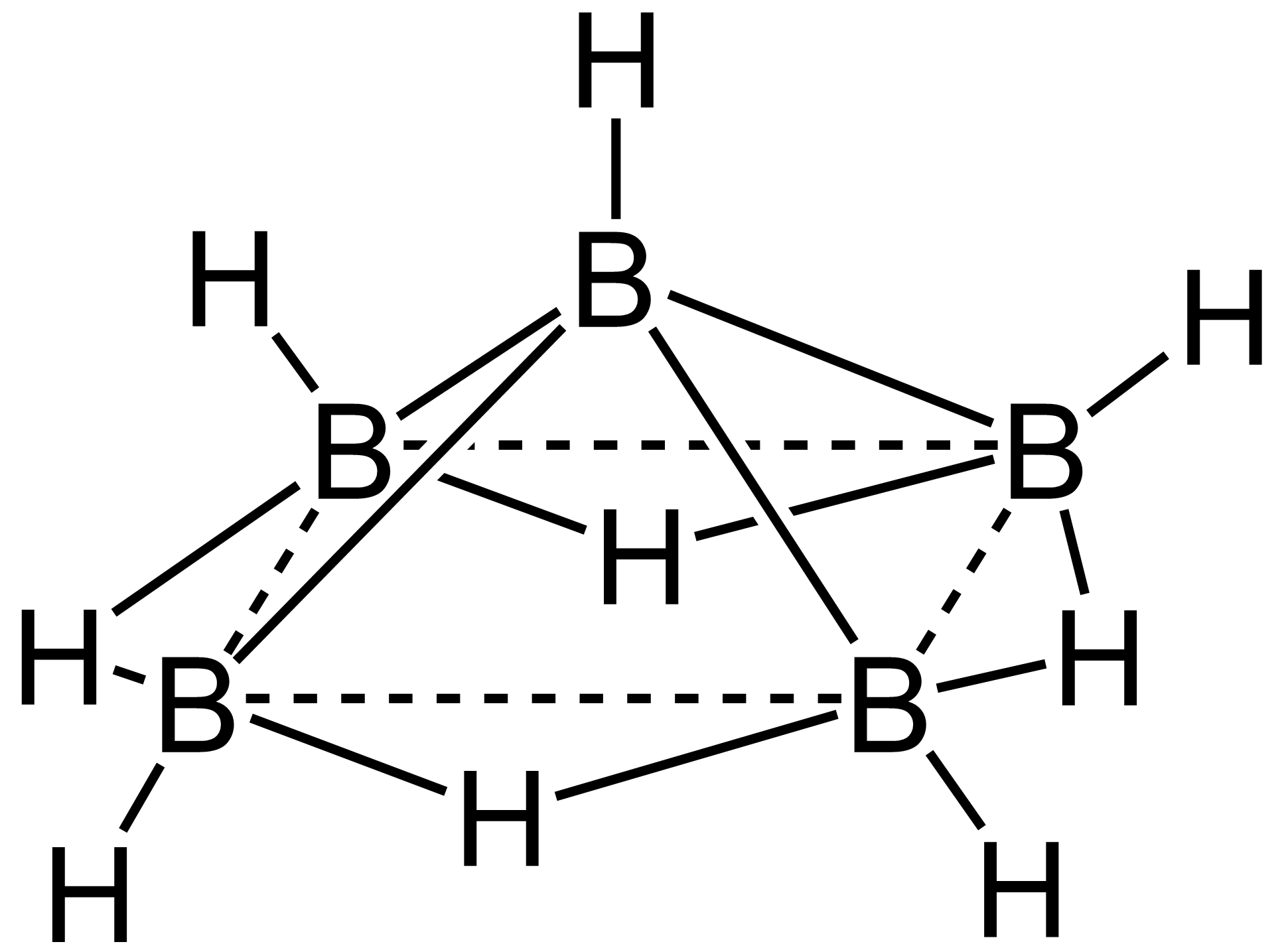 Chemical structure of pentaborane